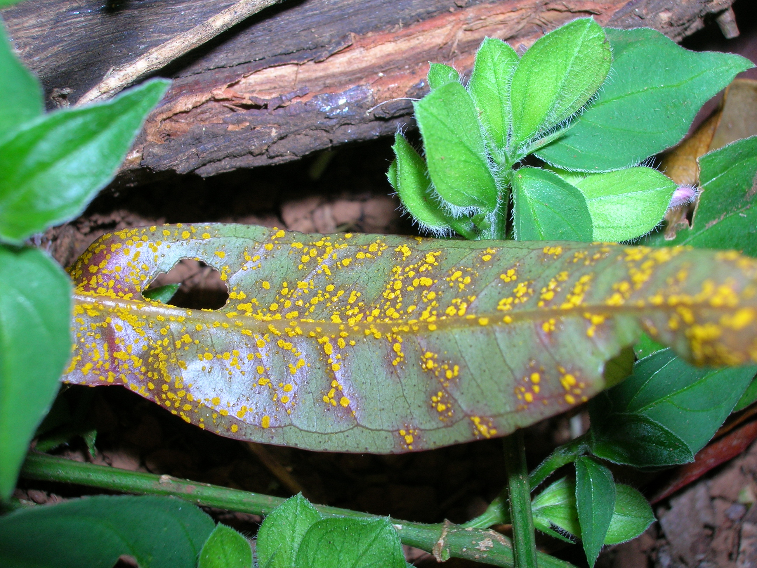 Syzygium jambos (with Puccinia psidii). Location: Maui, Makawao